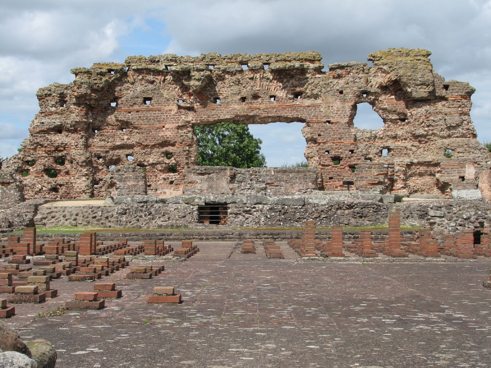 Wroxeter Roman town. This is apparently the tallest surviving Roman wall in Britain. It was part of the public baths - the supports of the hypocaust (under-floor heating) can be clearly seen.